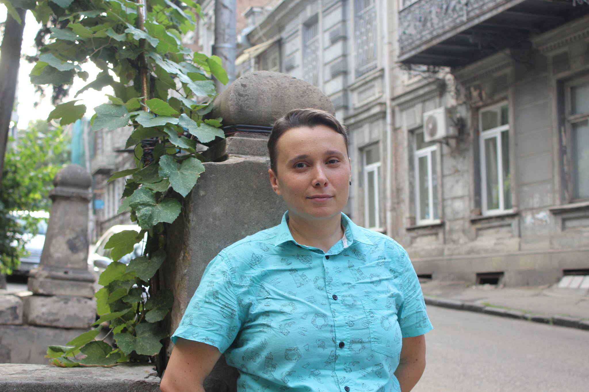 LGBT activist Nino Bolkvadze